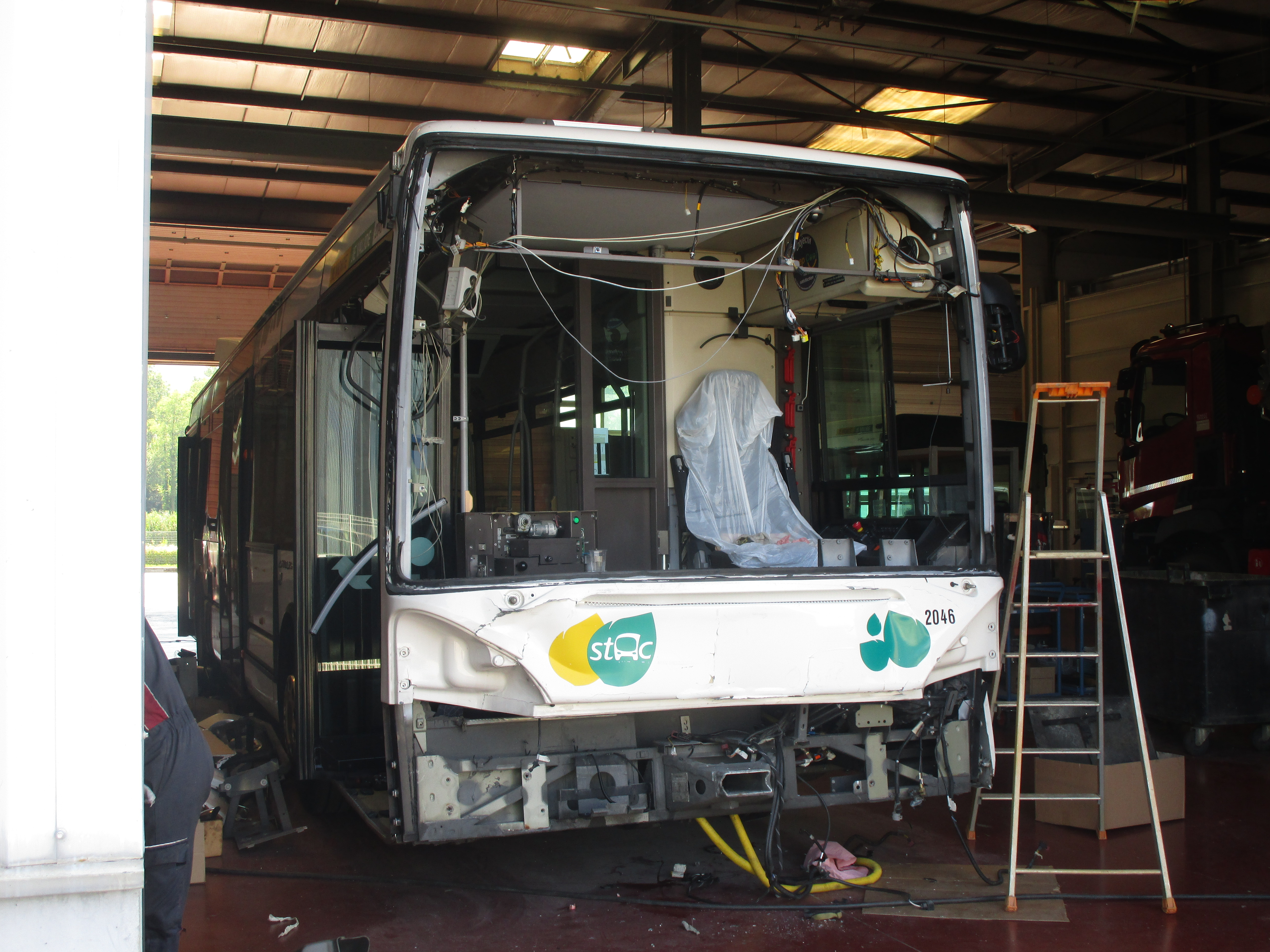 An Irisbus Citelis 12 (n°2046 of the French agglomeration community Chambéry Métropole - Cœur des Bauges) in a garage (Voglans, France) on June 19, 2017.